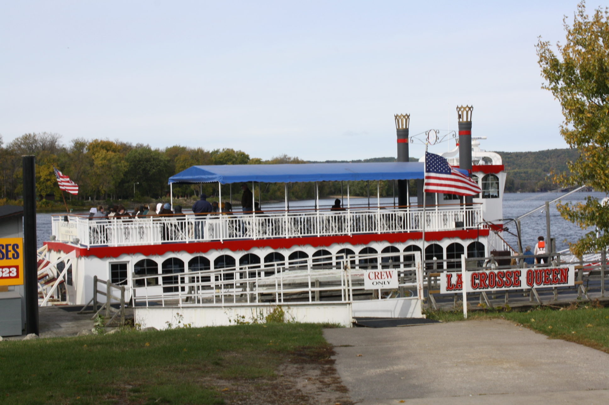 The La Crosse Queen, a paddlewheel riverboat on the Mississippi River, at it's docks in La Crosse, Wisconsin.